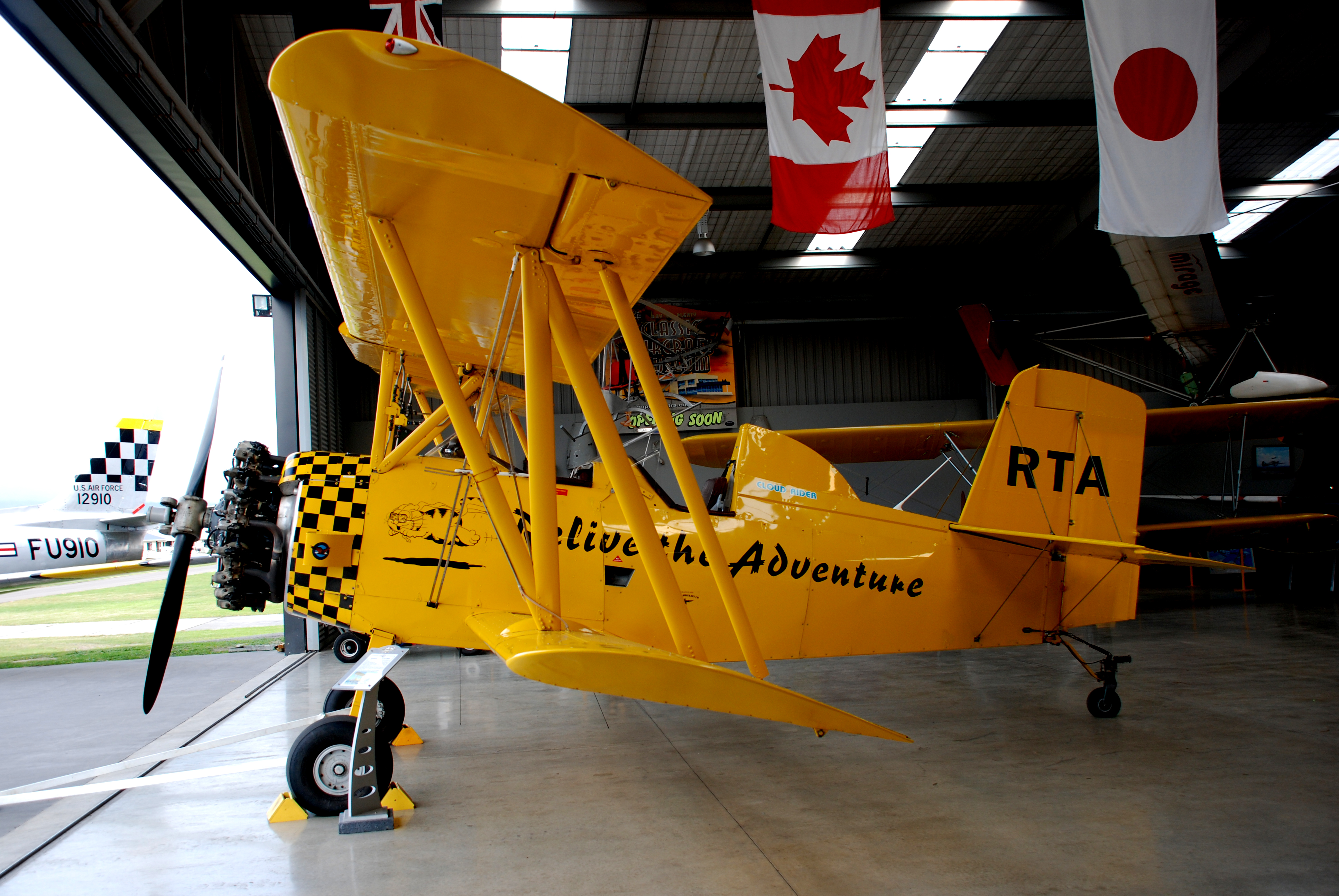 Grumman Ag-Cat 450A, Tauranga Air Museum, Bay of Plenty, New Zealand, 21 May 2007